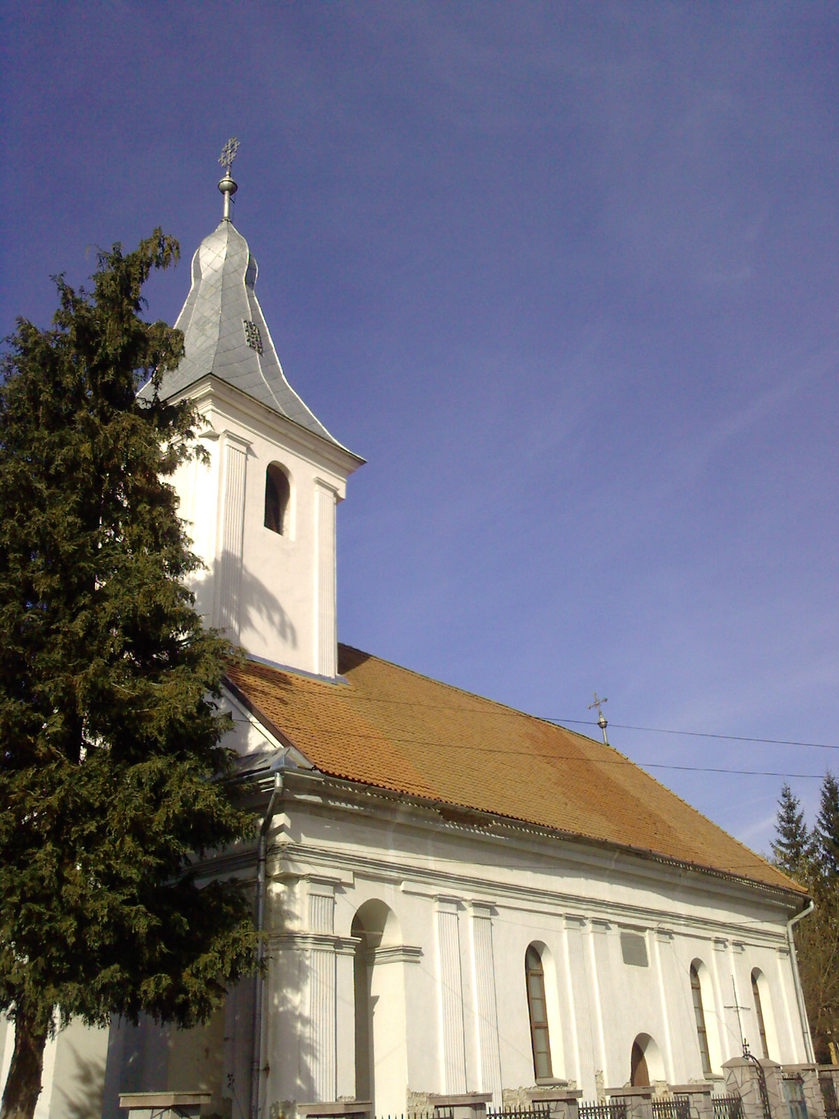 Orthodox Church, Valcele, Covasna County, Romania